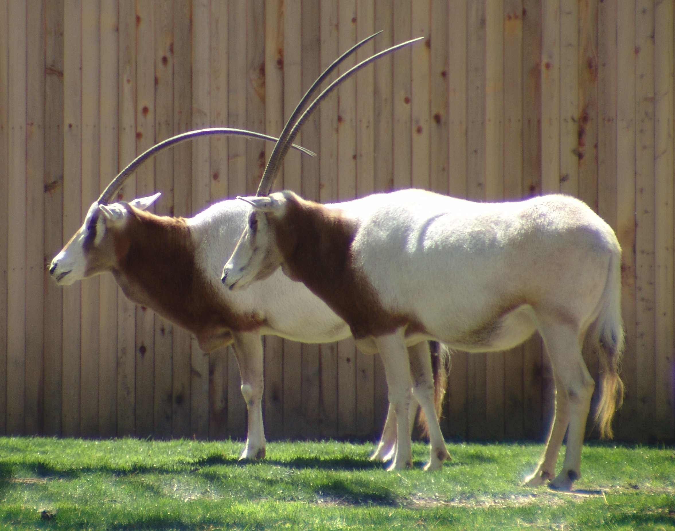 Scimitar-horned Oryx (Oryx dammah) in National Zoo